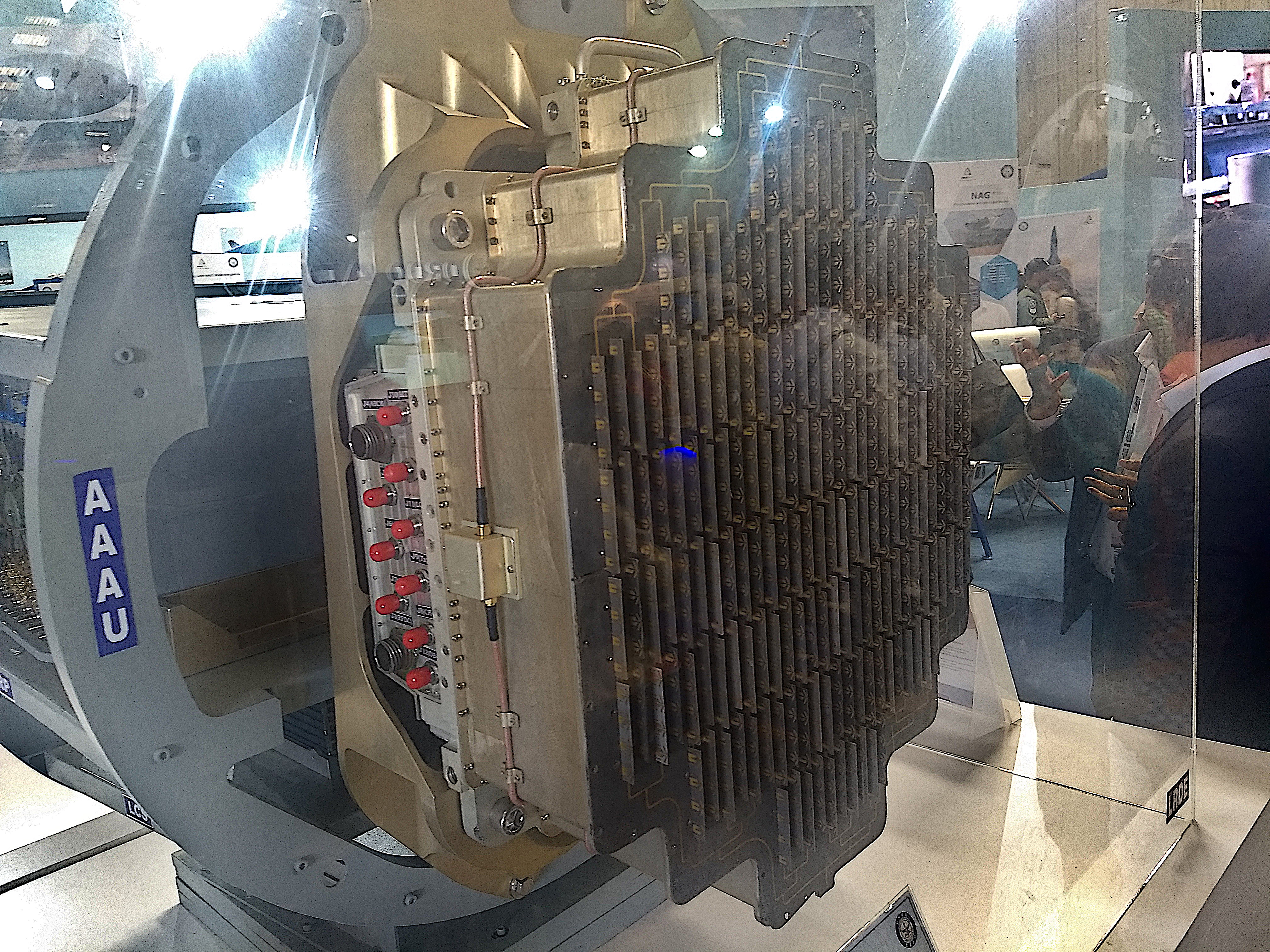 The Active Antenna Array Unit (AAAU) of Uttam AESA radar on static display at Aero India, 2019, Feb 20-24 2019 at Yelahanka AFS near Bengaluru